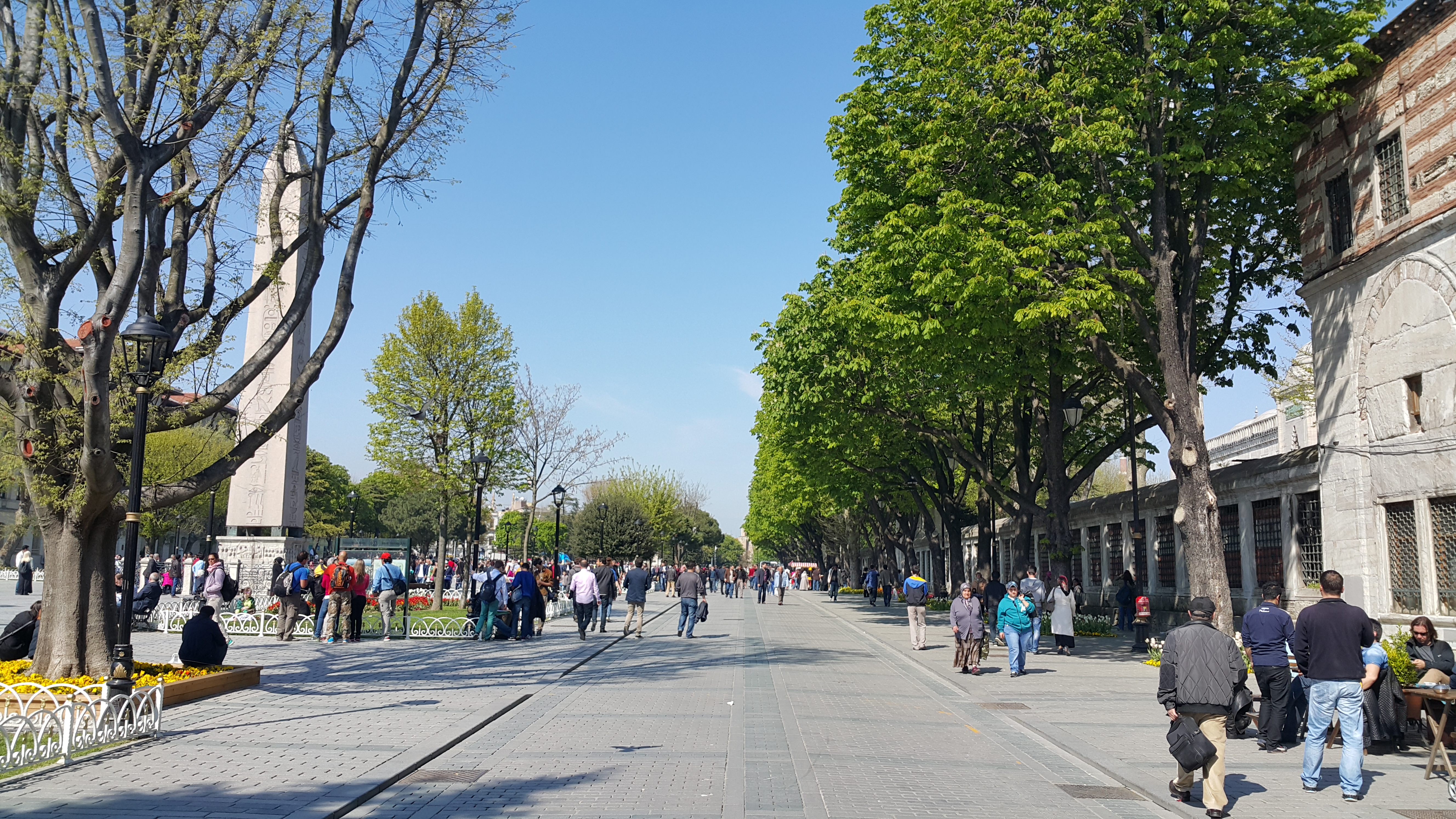 Sultanahmet Square (Hippodrome), İstanbul, Turkey.